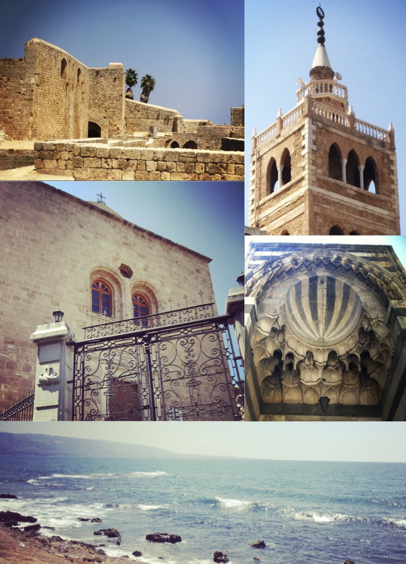 This is a collage of photos of different sites in the city of Tripoli, Lebanon